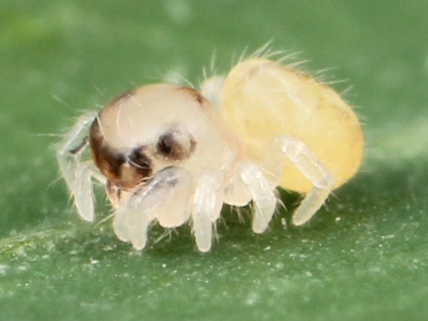 Recently hatched Zygoballus sexpunctatus spiderling. This stage is referred to as the larval or postembryonic stage and is before the spider's first molt. At this stage the spider lacks eye lenses, foot pads, or functioning spinnerets. Normally jumping spiders do not leave the egg sac until after the first molt, but this one was extracted for photographing. The total body length is approximately 1.25 mm.